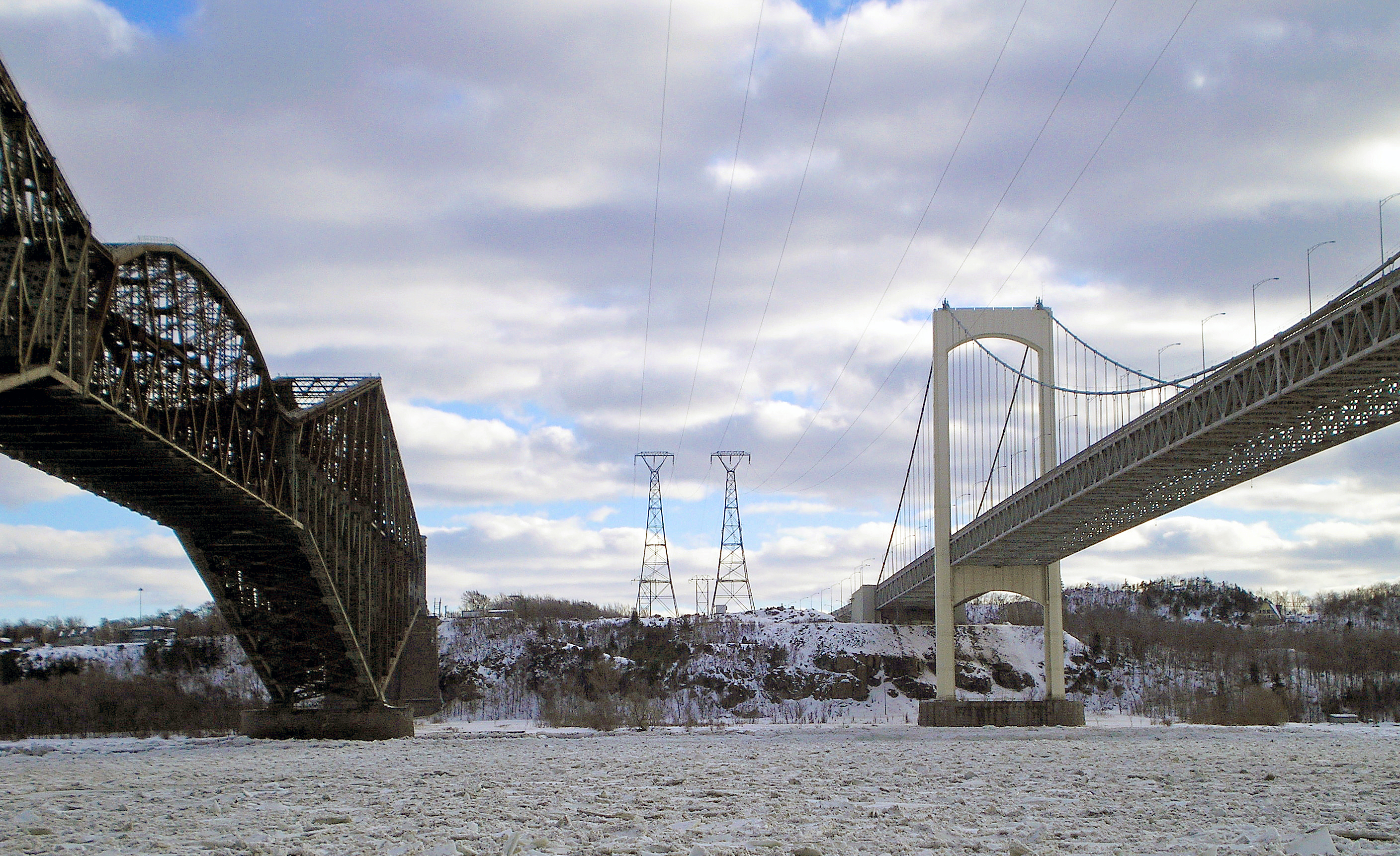 Quebec and Pierre-Laporte Bridges, seen from the North end in winter.